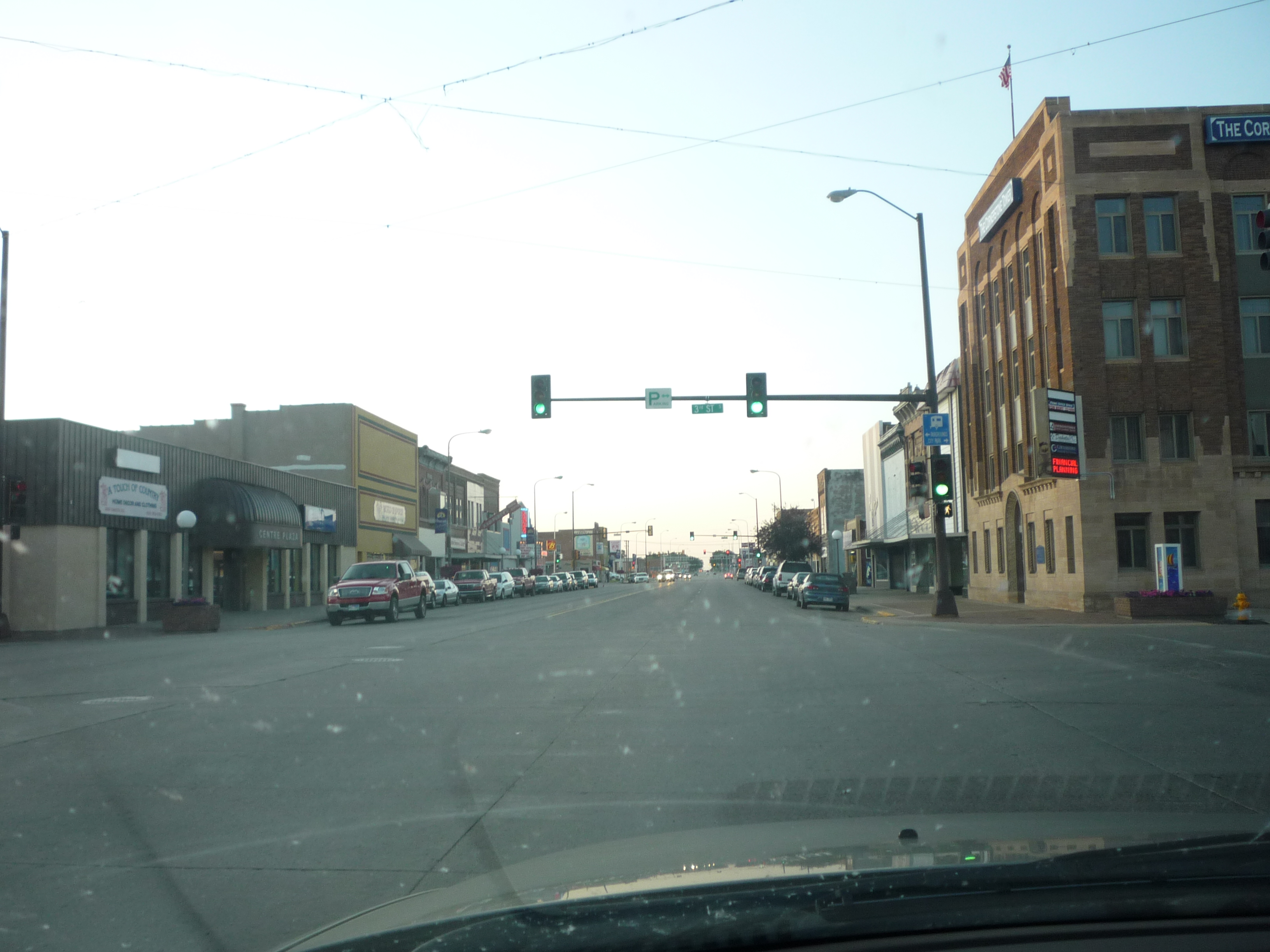 To show what downtown huron looks like